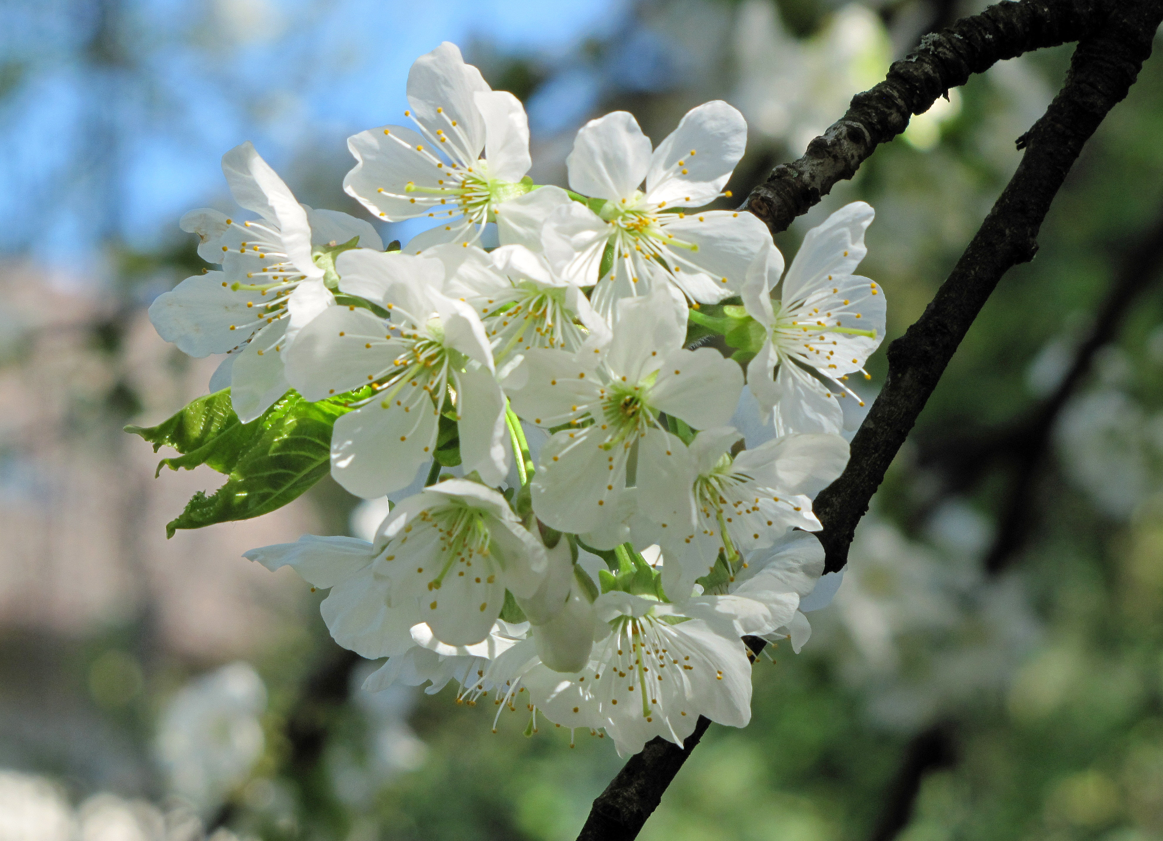 Prunus avium: Flowers.